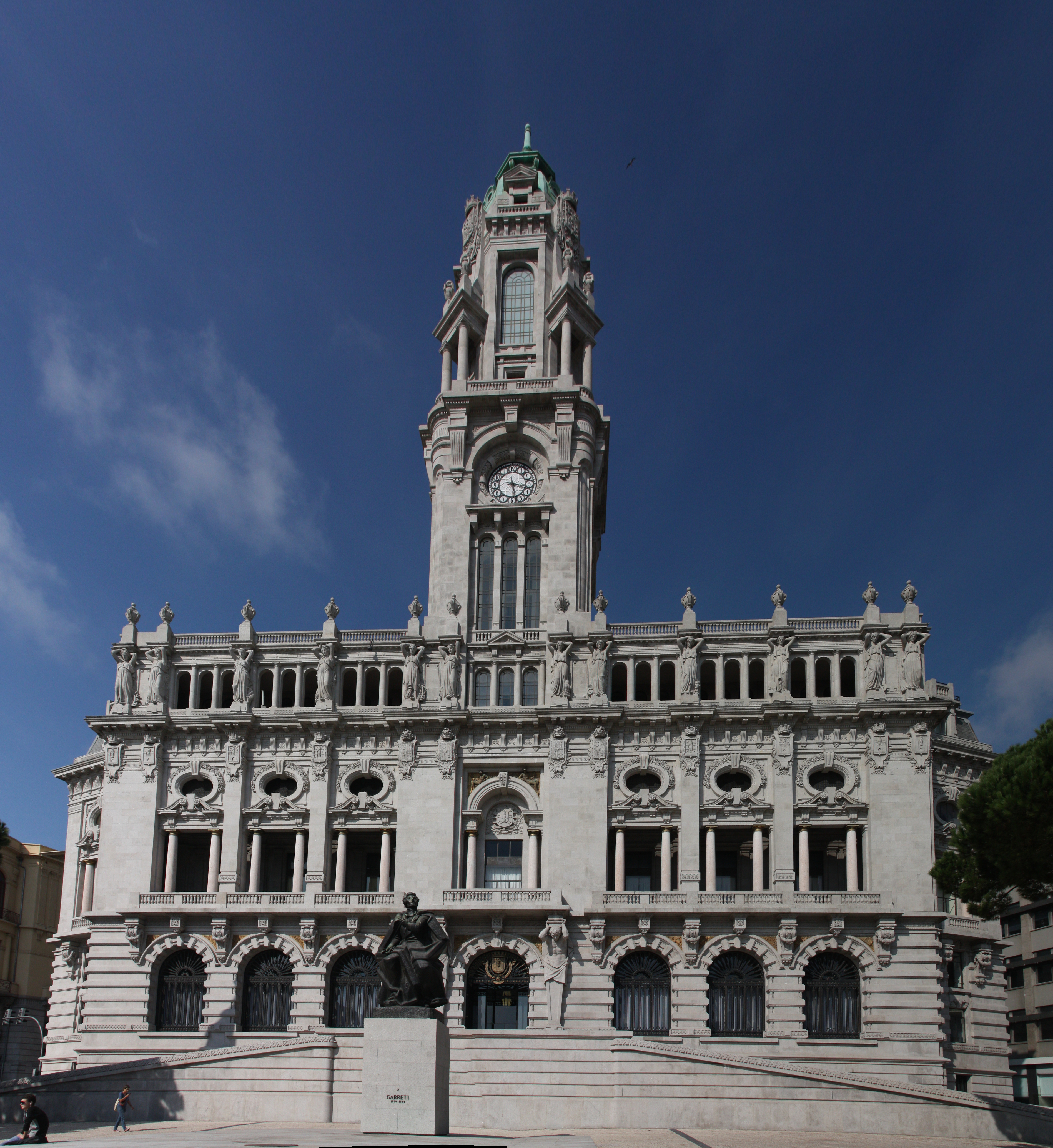 City hall of Porto, Portugal